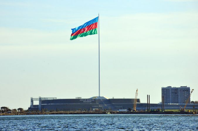 National Flag Squre in Baku? Azerbaijan